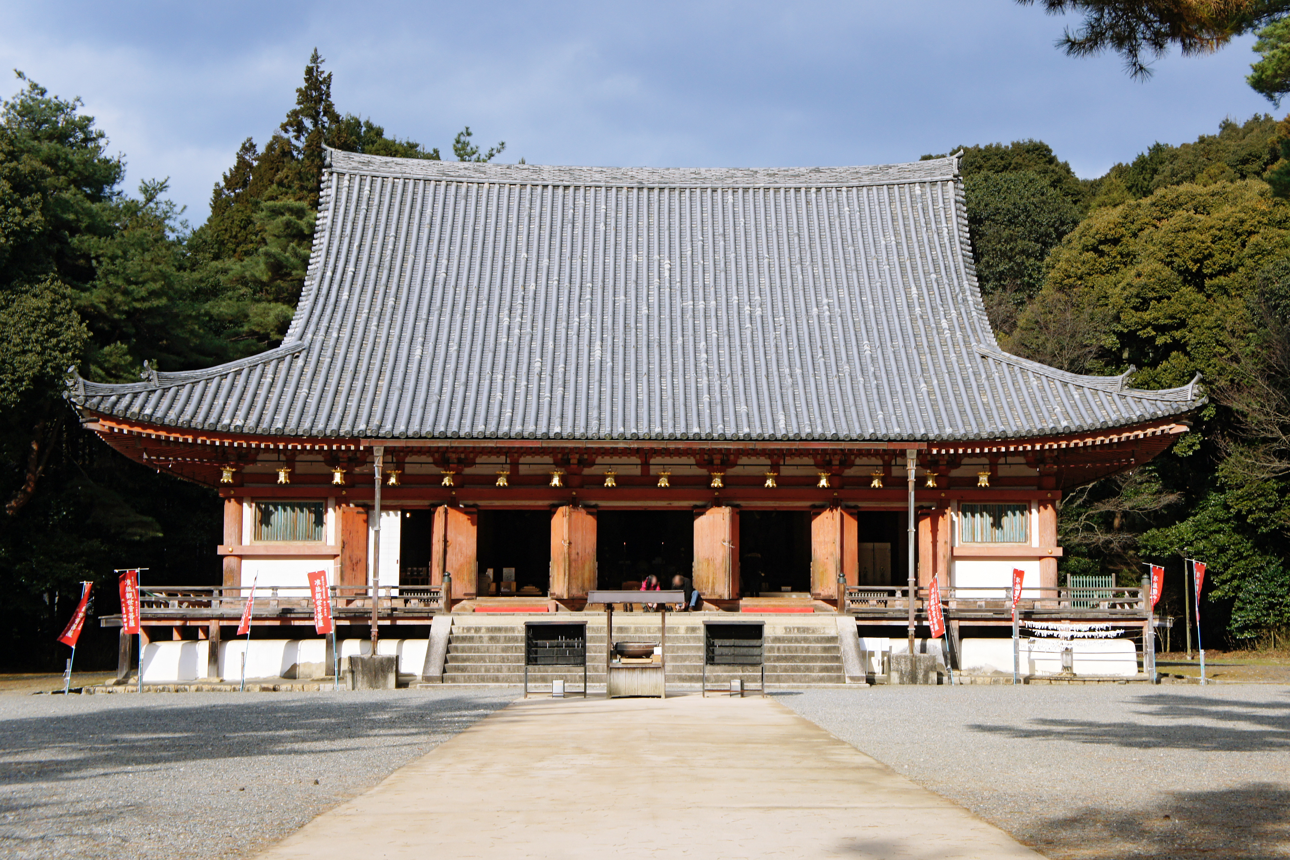 Daigo-ji's Golden Hall is Japan's National Treasure in Fushimi-ku, Kyoto, Kyoto Prefecture, Japan. Daigo-ji was registered as part of the UNESCO World Heritage Site "Historic monuments of ancient Kyoto".